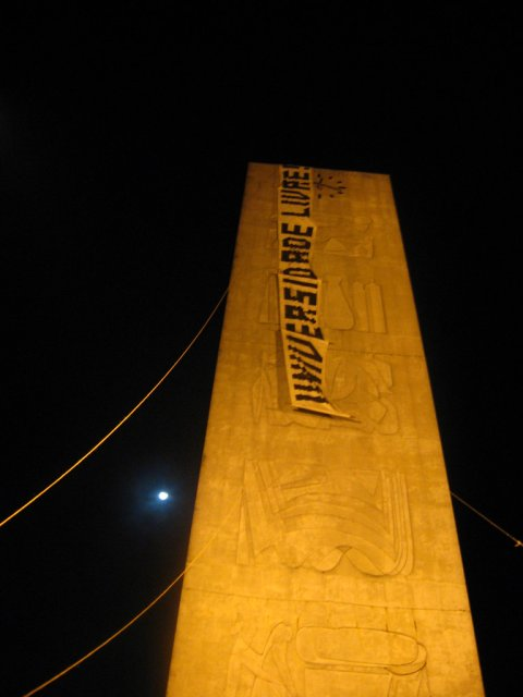 USP Clock Tower